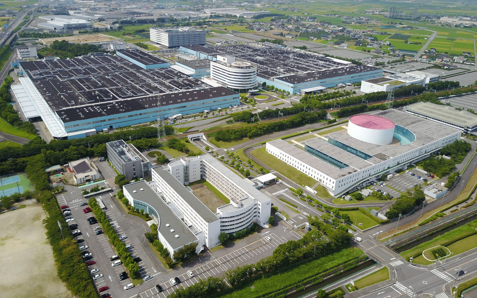 The headquarters of AISIN AW (ANJO-City, AICHI-Pref., JAPAN)